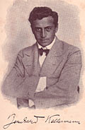 Bernhard Kellermann in 1901